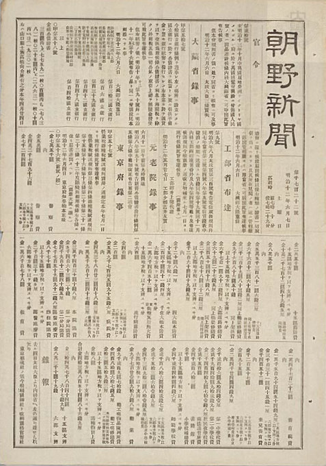 Chōya Journal, say "Official and Unofficial News", was a Japanese political crit journal published from 1874 till 1893.